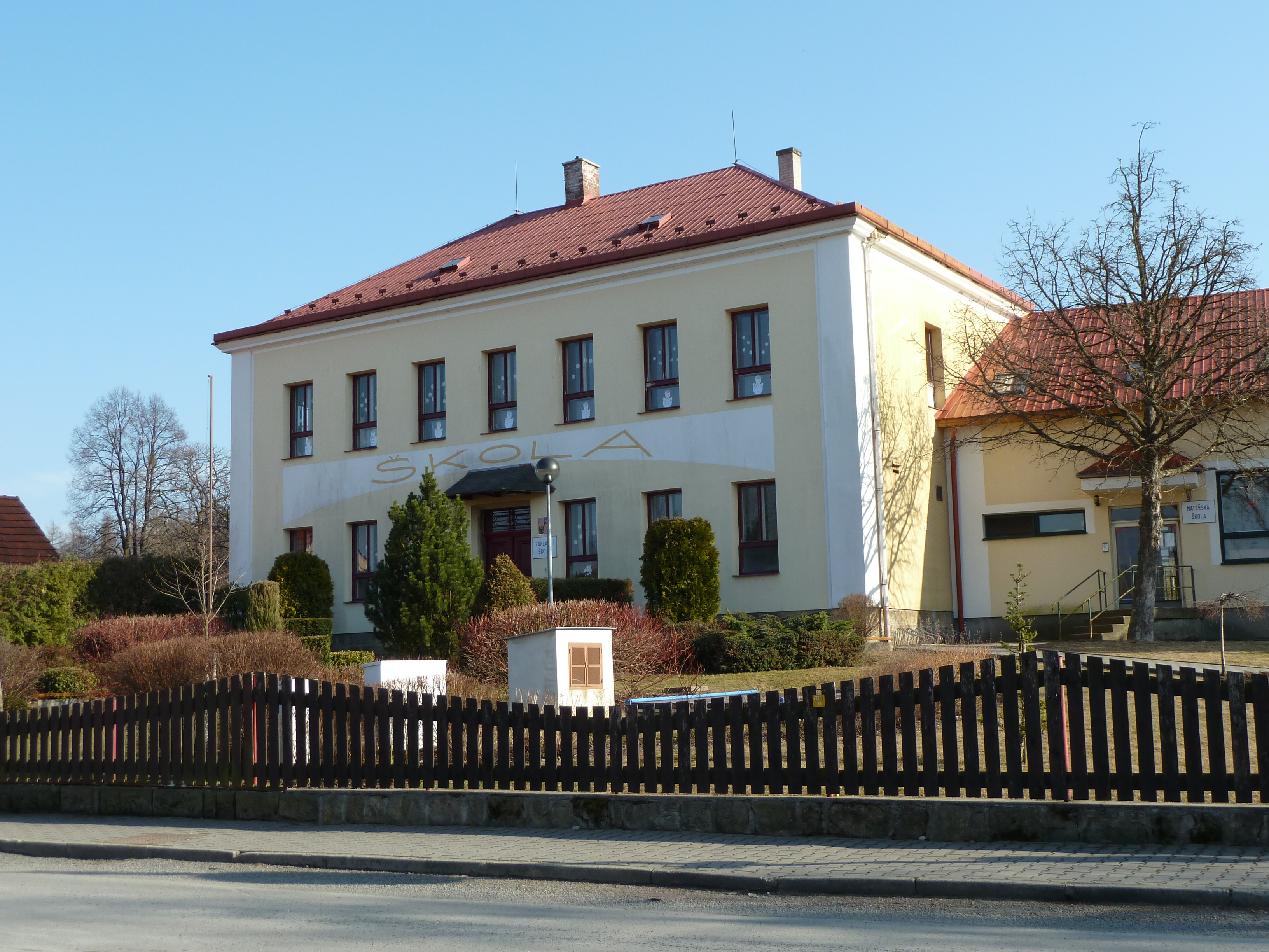 A school in village Hostašovice (Nový Jičín district, north-eastern Moravia, Czech Republic)